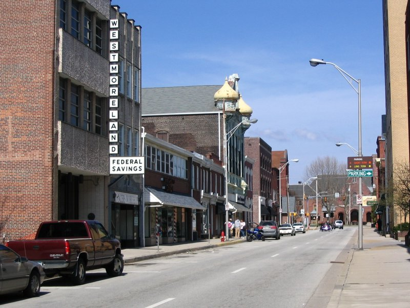 Main Street (Pennsylvania Route 981), Latrobe, Pennsylvania, 2006